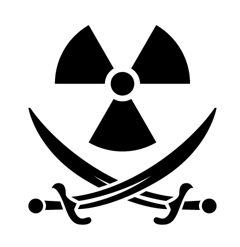 Editorial illustration for an article about the dumping of nuclear waste into the waters off of Somalia, forcing many to resort to pirating.